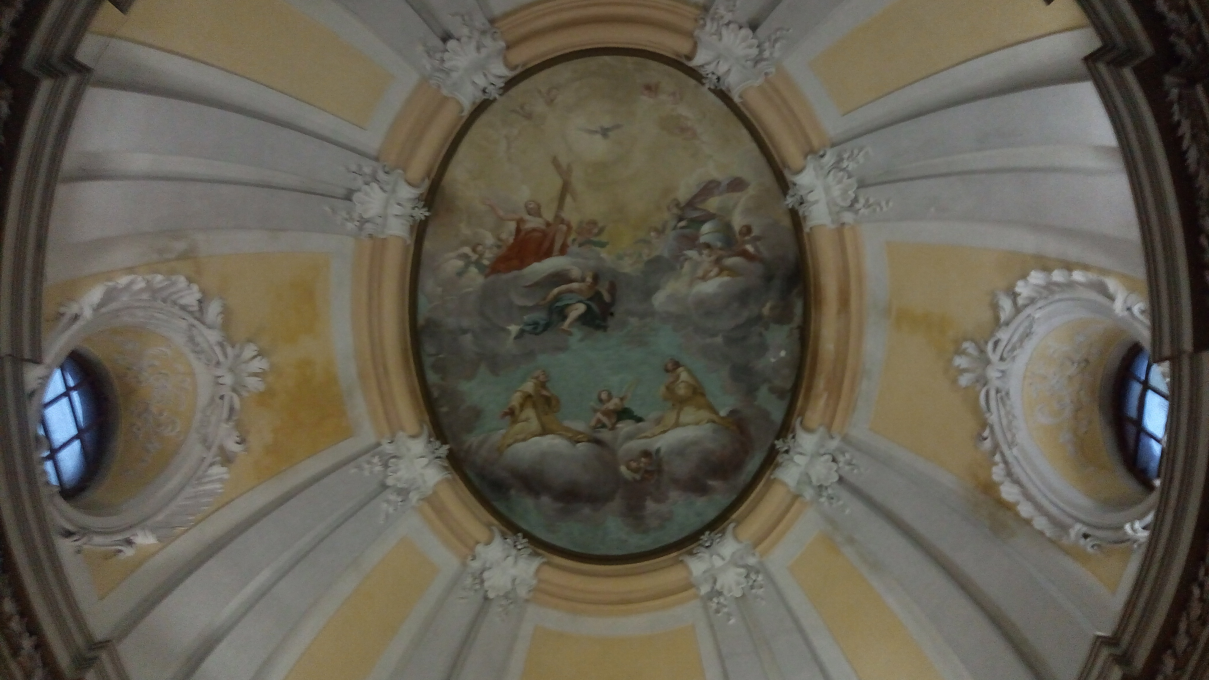 Oratorio del riscatto curch